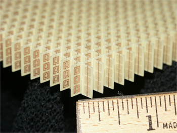 Figure 2 Part of the left-handed metamaterial array configuration, which was constructed of copper split-ring resonators and wires mounted on interlocking sheets of fiberglass circuit board. The total array consists of 3 by 20 by 20 unit cells with overall dimensions of 10 by 100 by 100 mm. Split-ring resonator consisting of an inner square with a split on one side embedded in an outer square with a split on the other side. Split-ring resonators are on the front and right surfaces of the square grid, and single vertical wires are on the back and left surfaces. References: Chevalier, Christine T.; and Wilson, Jeffrey D.: Frequency Bandwidth Optimization of Left-Handed Metamaterial. NASA/TM--2004-213403, 2004. Wilson, Jeffrey D.; and Schwartz, Zachary D.: Multifocal Flat Lens With Left-Handed Metamaterial. Appl. Phys. Lett., vol. 86, no. 2, 2005. Smith, D.R., et al.: Composite Medium With Simultaneously Negative Permeability and Permittivity. Phys. Rev. Lett., vol. 84, no. 18, 2000. Shelby, R.A., et al.: Microwave Transmission Through a Two-Dimensional, Isotropic, Left-Handed Metamaterial. Appl. Phys. Lett., vol. 78, no. 4, 2001.